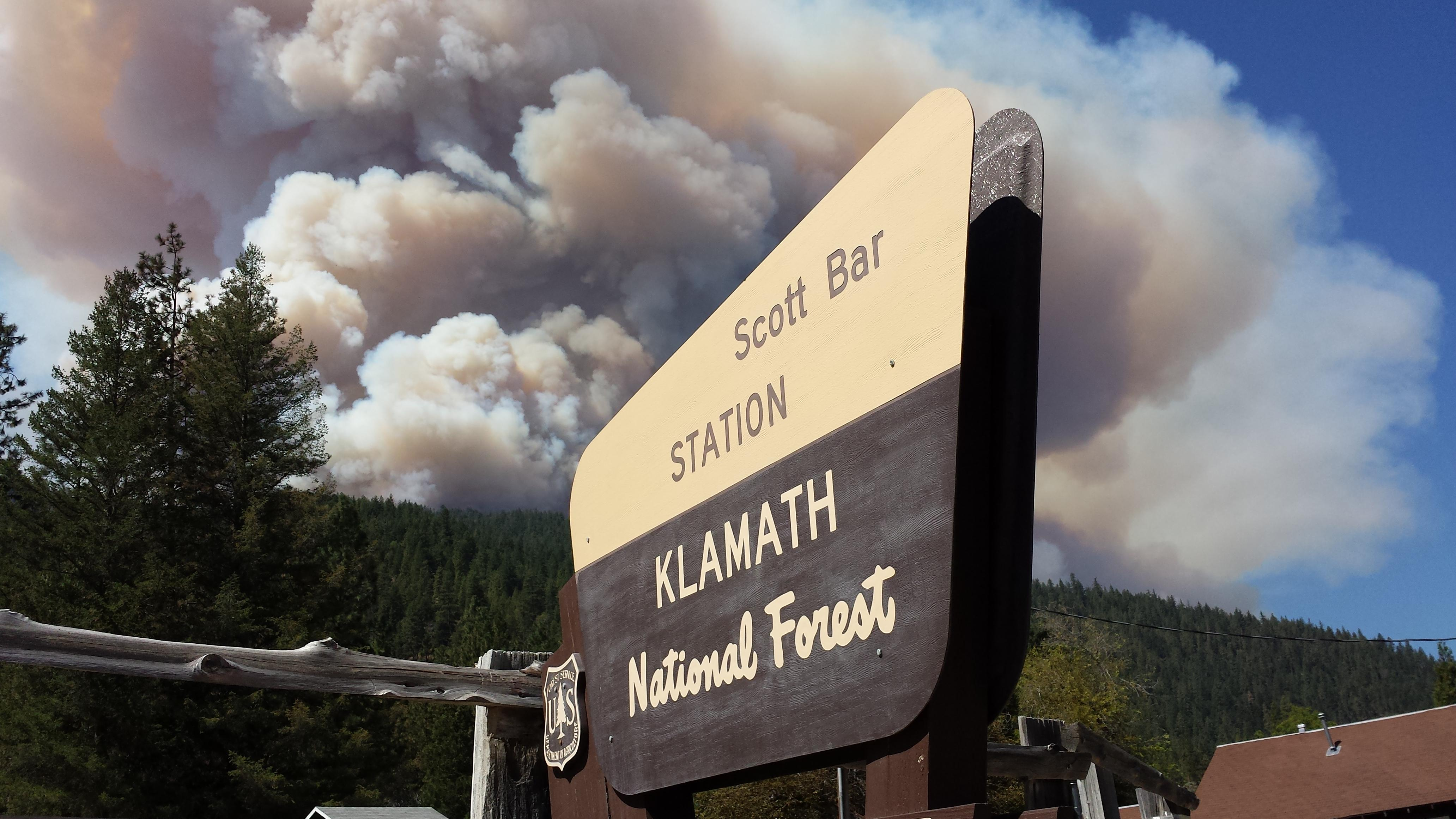 Smoke rises from the Happy Camp Complex Fire